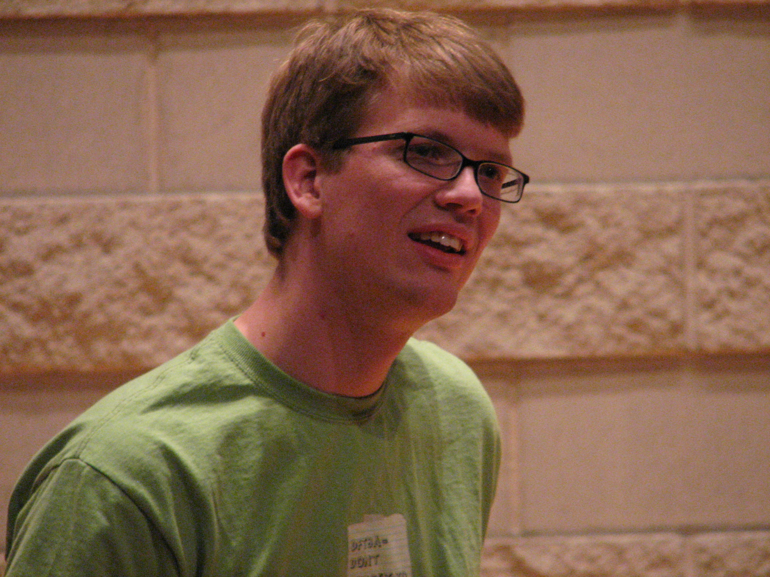 Hank Green at the last stop of the Great American Tour de Nerdfighting, St. Paul, Minnesota, November 18, 2008.